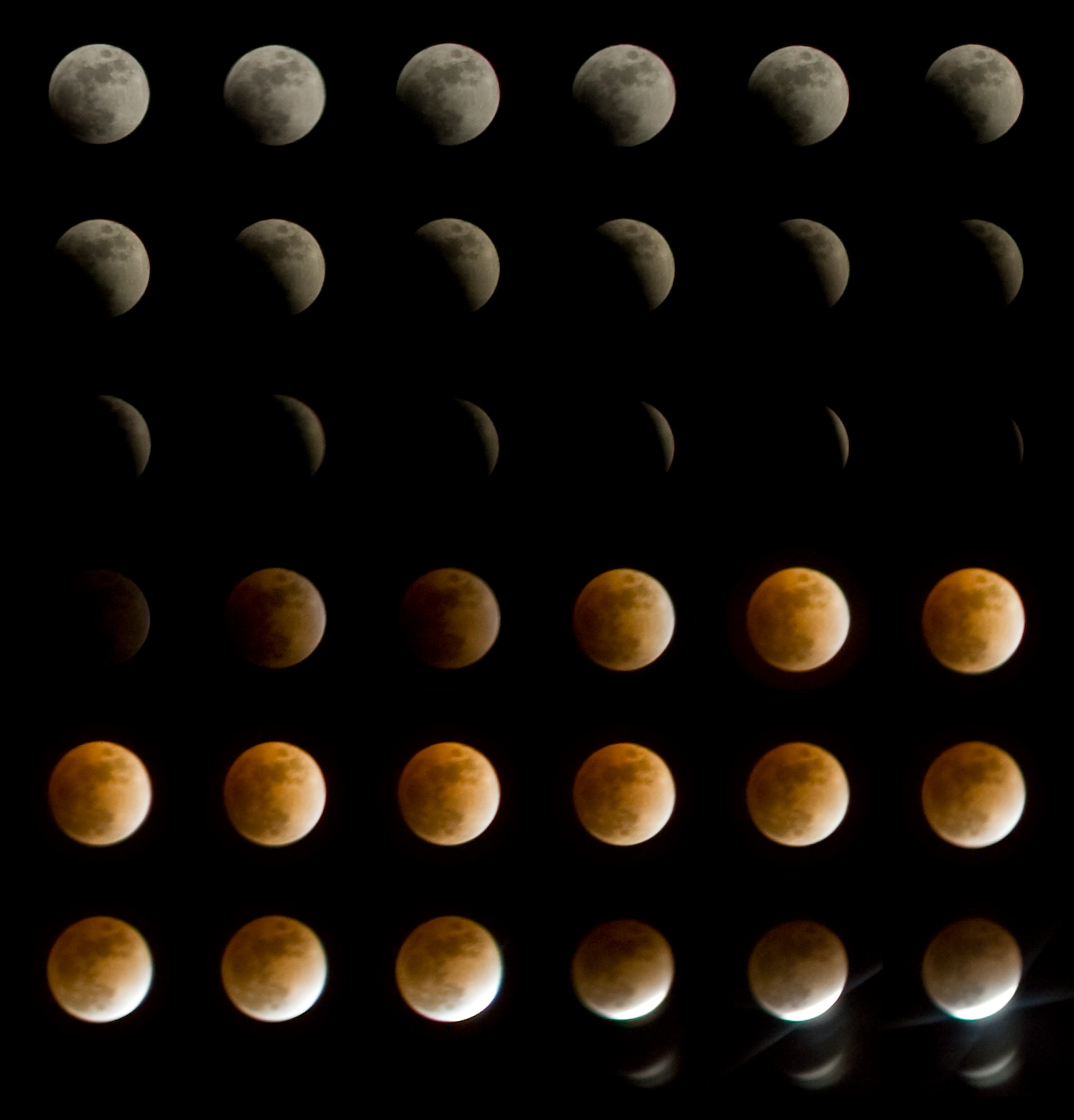 Collage from the February 20, 2008 Lunar Eclipse. Taken in Regina, Saskatchewan, Canada (50.440869,-104.60745). Photos taken every 5 minute (approximately)